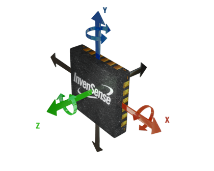 Chip exeplifying x, y and z - axis